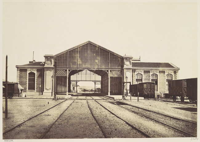 Railroad Station, Toulon, 1861 or later. Albumen silver print from glass negative. Gilman Collection, Gift of The Howard Gilman Foundation, 2005 (2005.100.364.69).